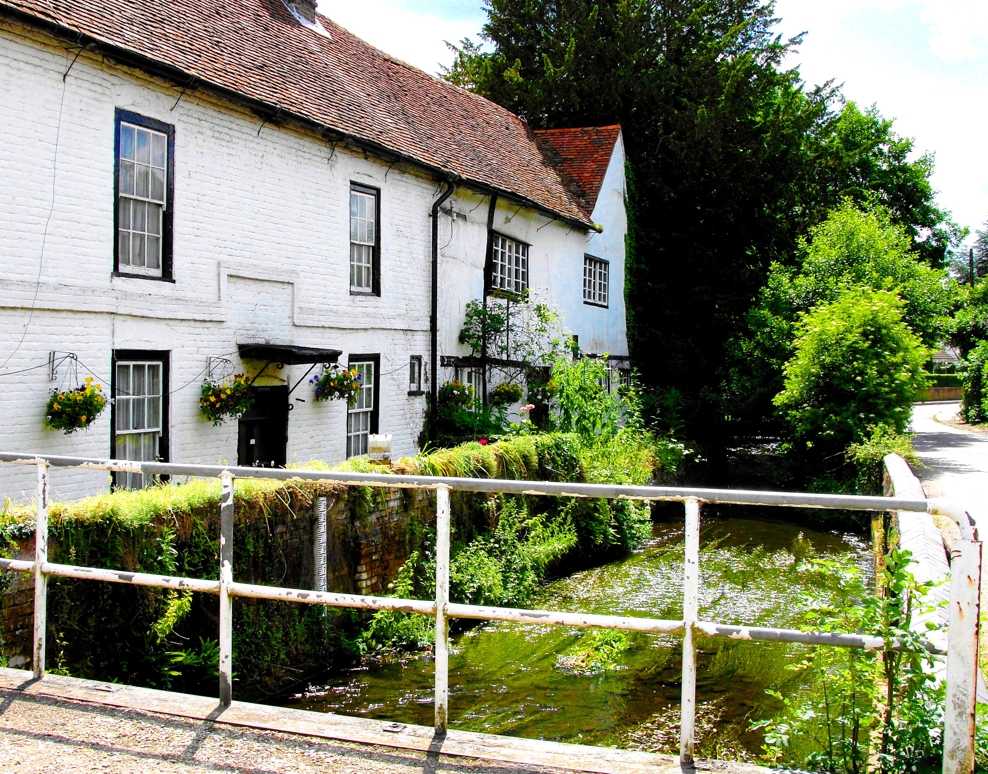 Bridge over some small creek (the River Colne?) in Colnbrook, Berkshire.